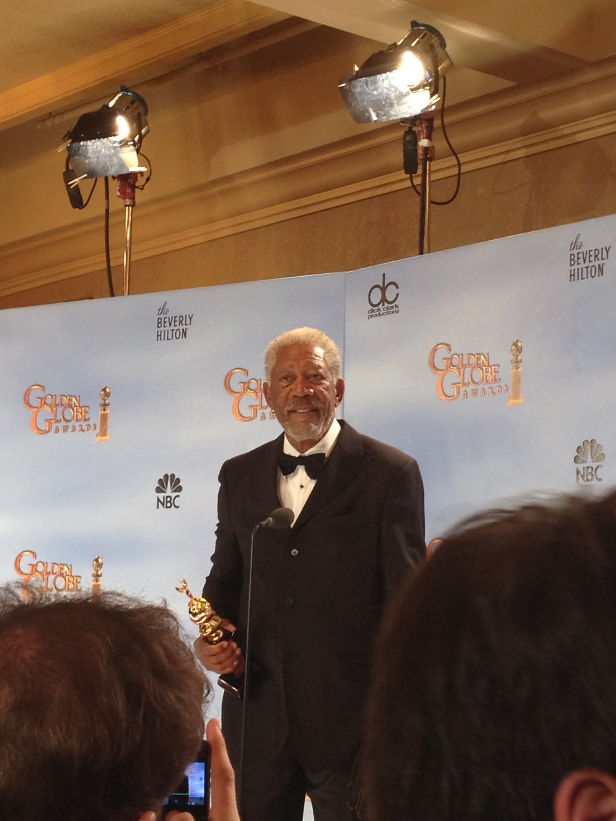 69th Annual Golden Globes Awards.